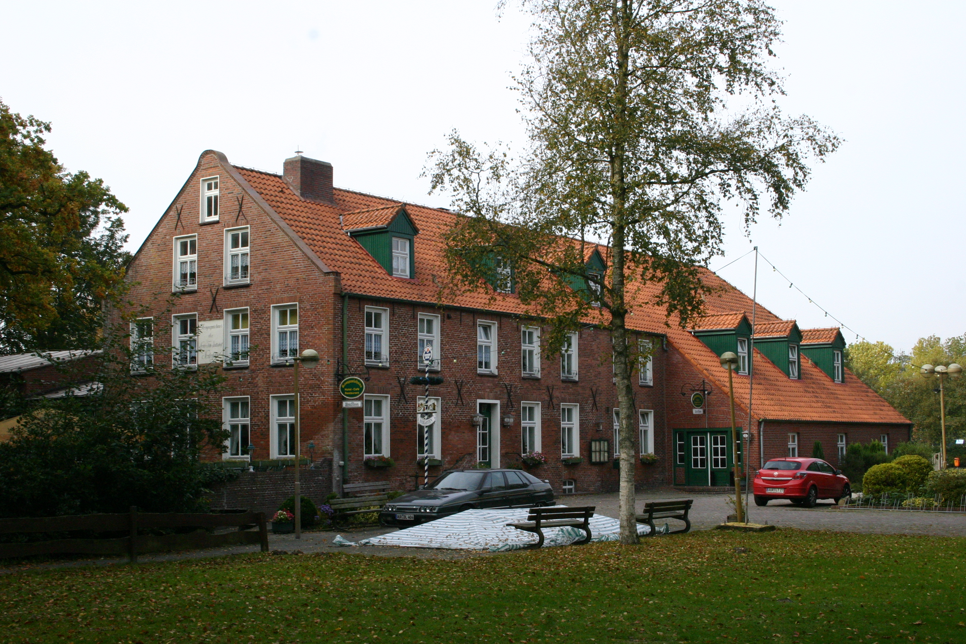 seat of the former fen colonization company in Berumerfehn, East Frisia, Germany